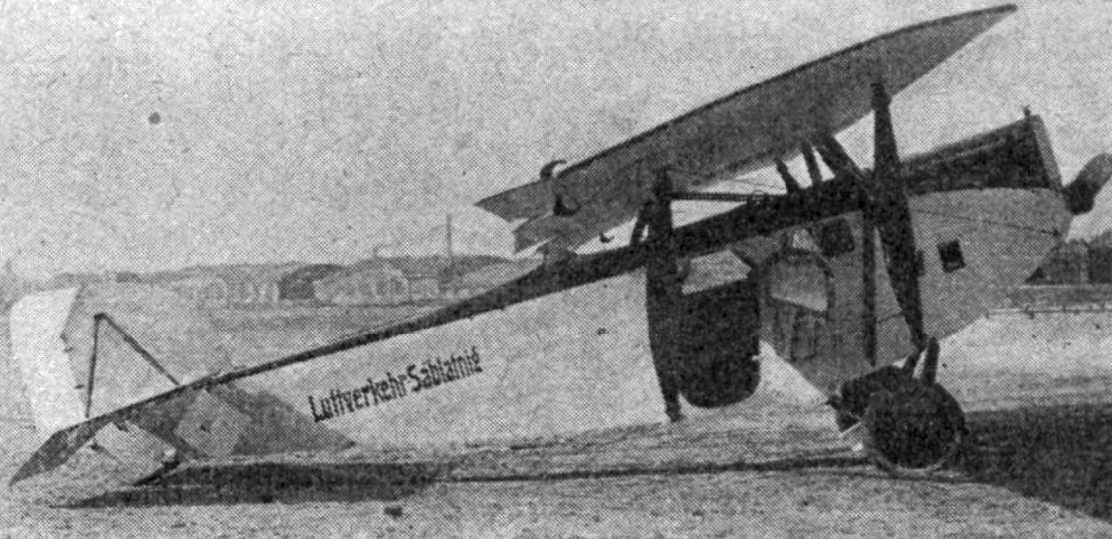 Sablatnig P.III photo from L'Aerophile January,1921